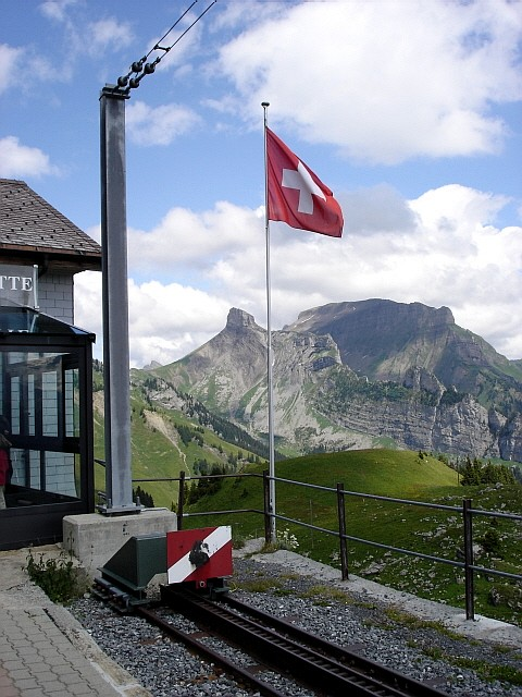 Schynige Platte-Bahn